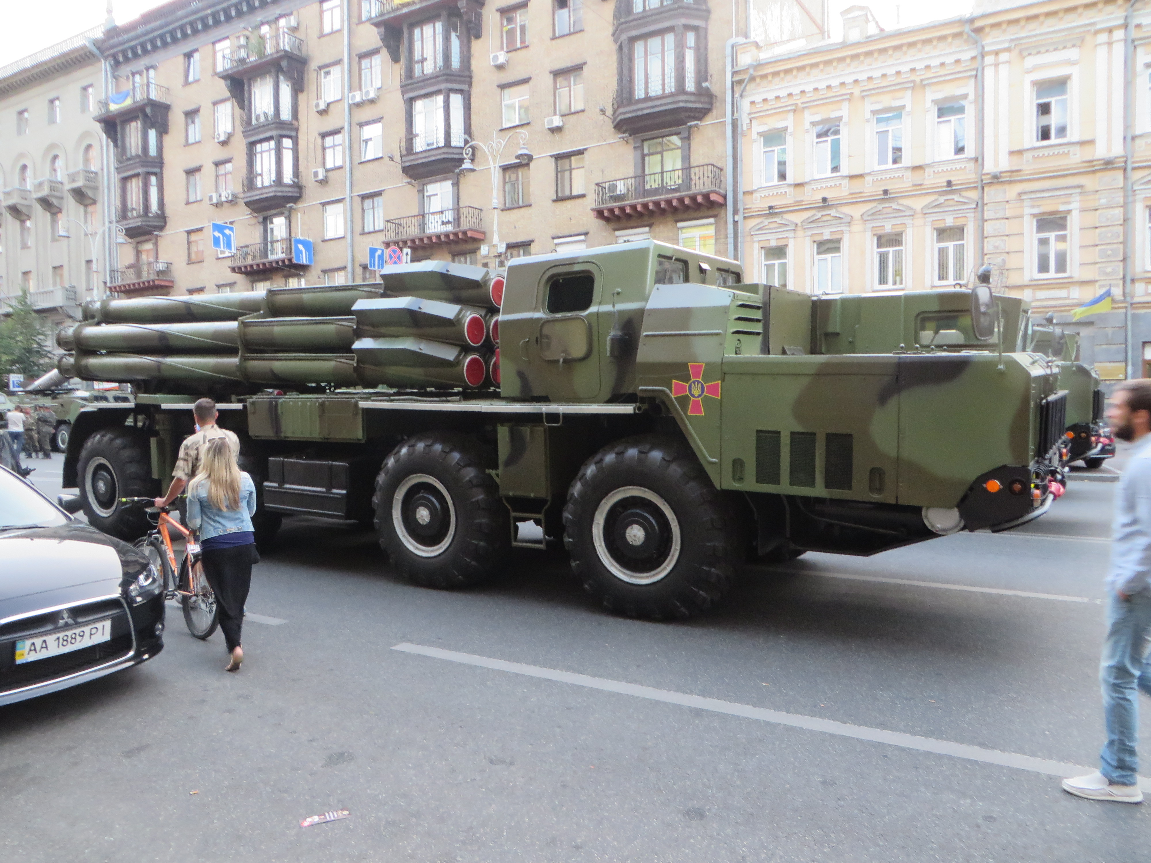 Ukrainian BM-30 Smerch launchers on march before the Independence Day parade in Kyiv, Ukraine on 22 of August, 2014.